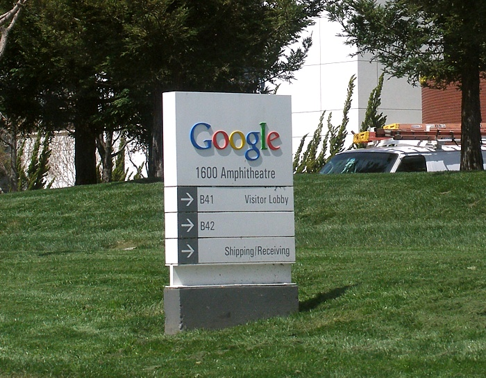 This sign welcomes visitors to the main building of the Googleplex (Google's company headquarters) at 1600 Amphitheatre Parkway in Mountain View, California.